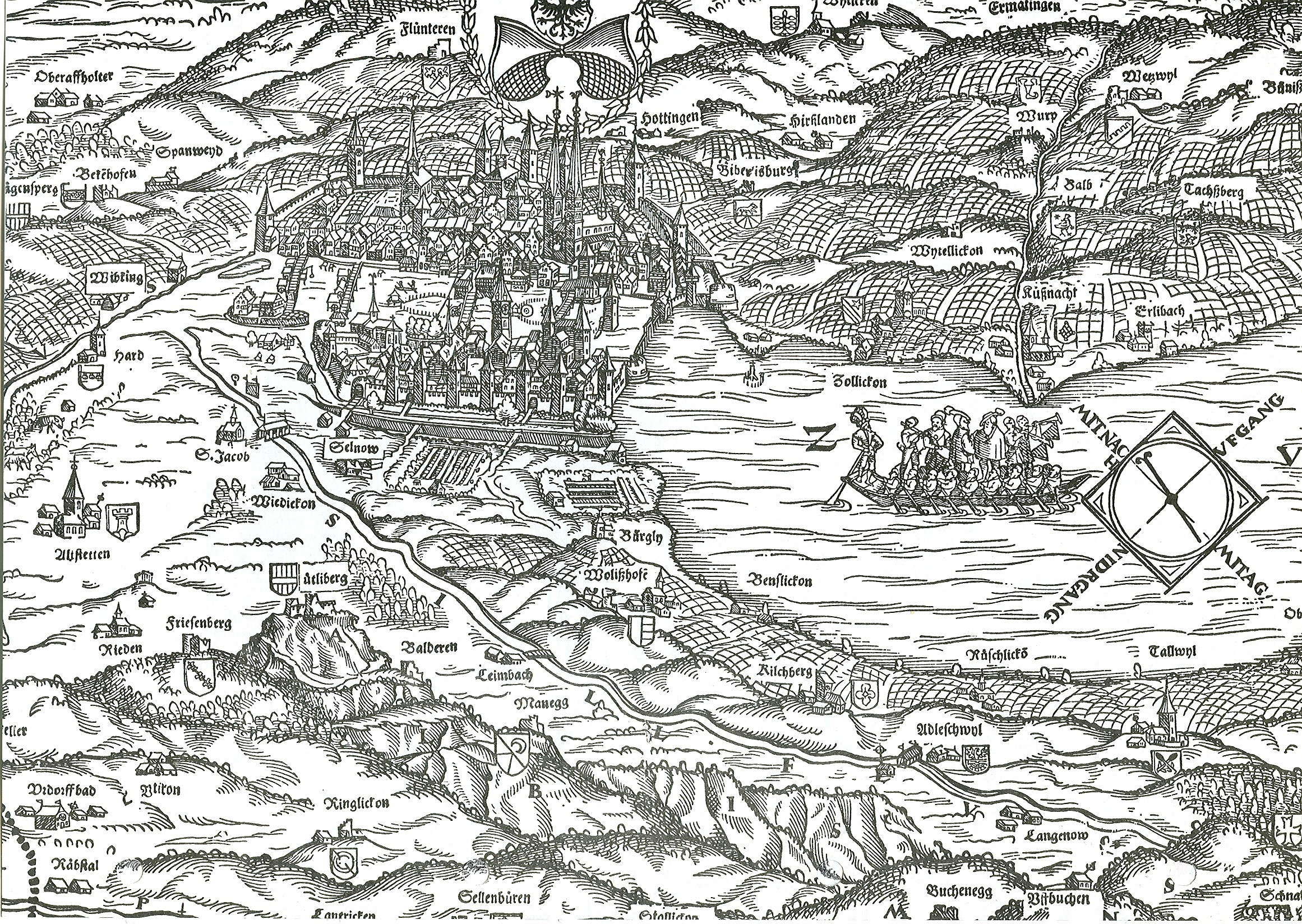 Map of Zürich by Jos Murer